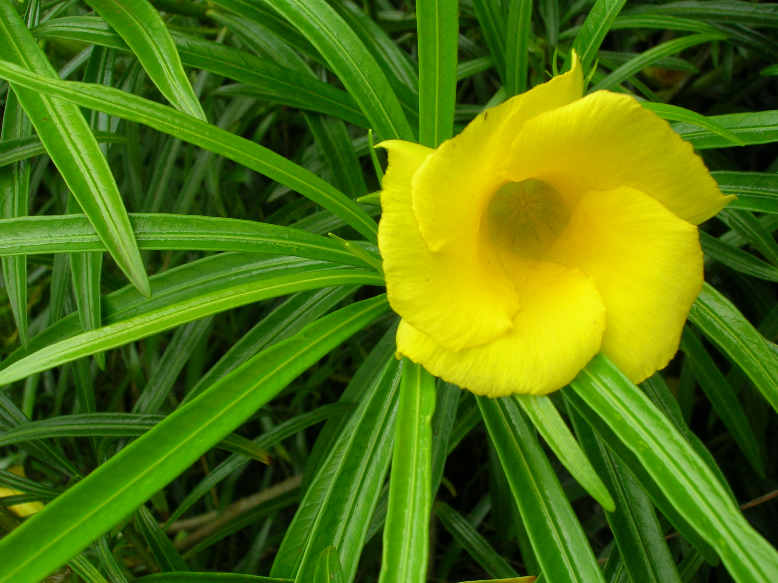 Thevetia peruviana (flower). Location: Maui, Kula